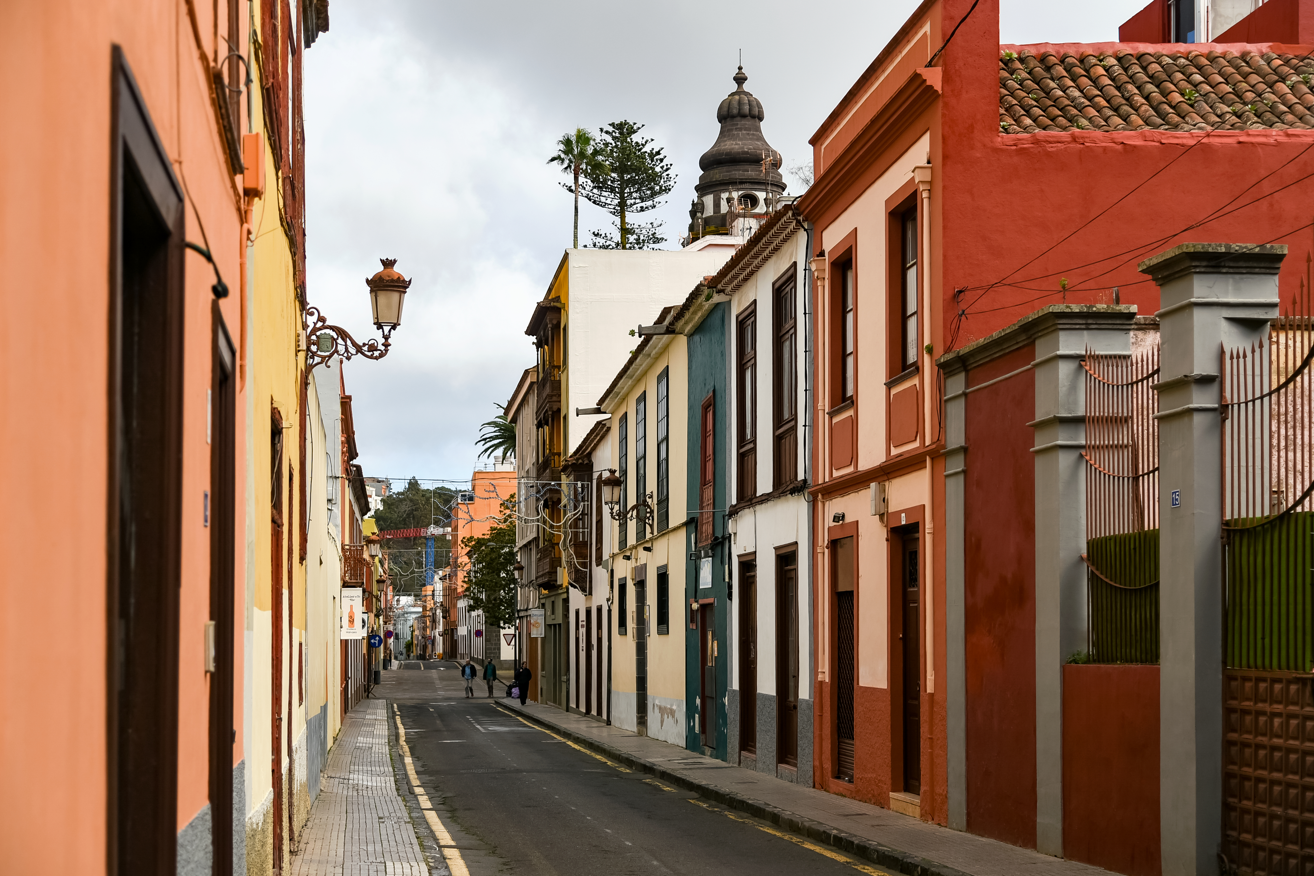 Tenerife (Islas Canarias, España)